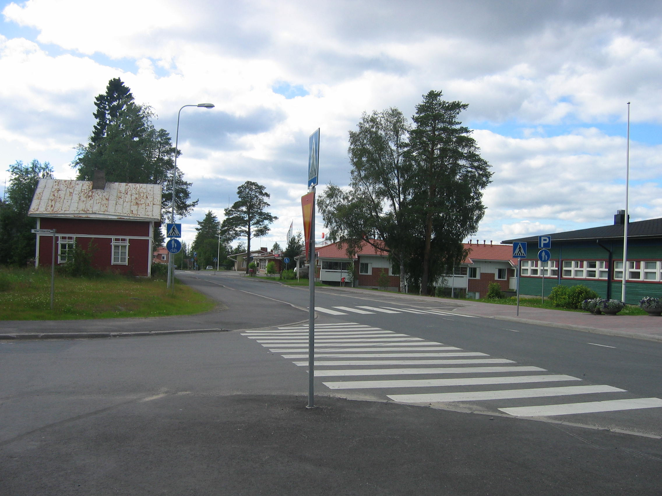 Harjutie, the main street of the centre of Ylikiiminki, Finland.